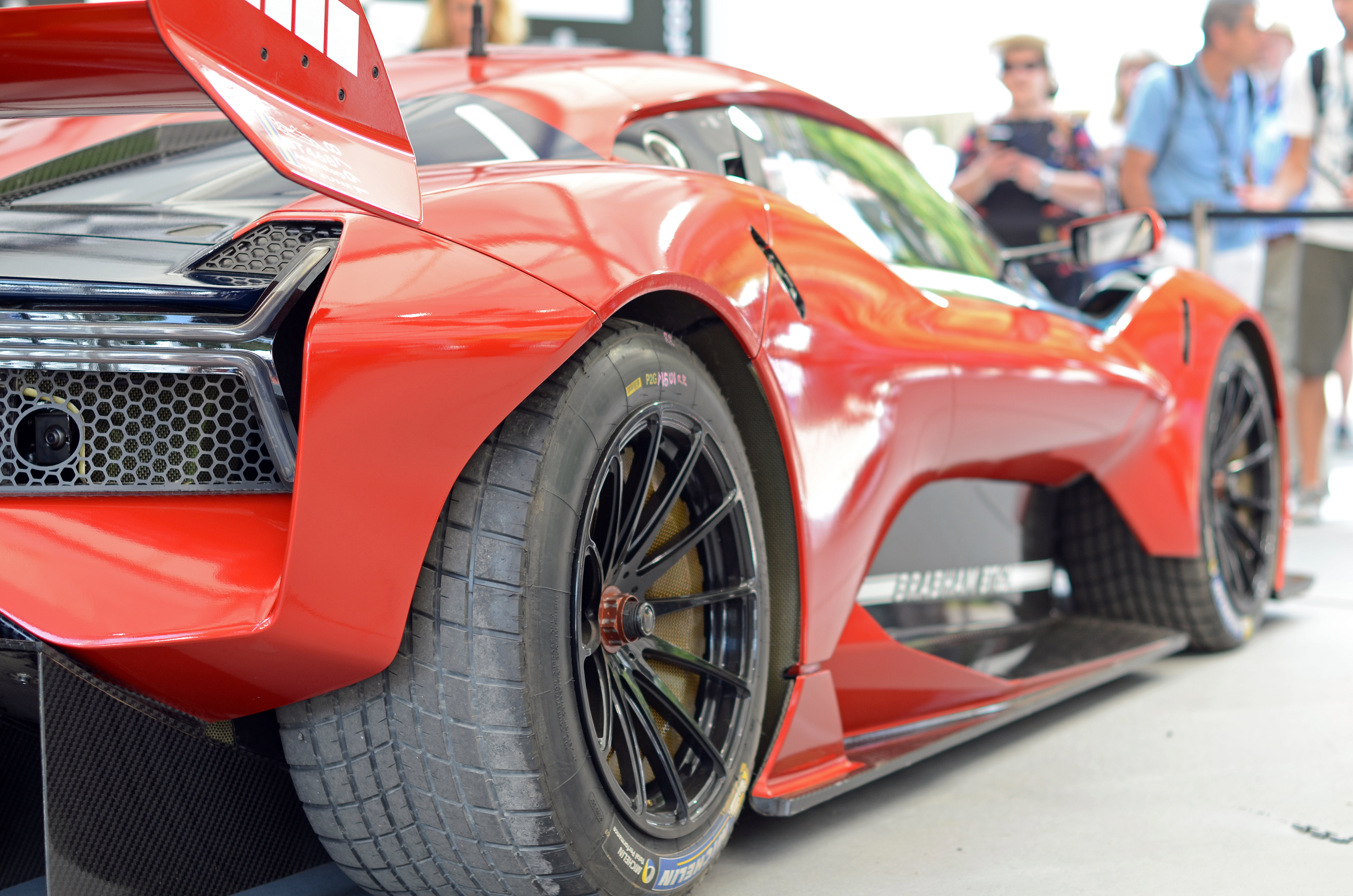 Goodwood Festival of Speed 2018